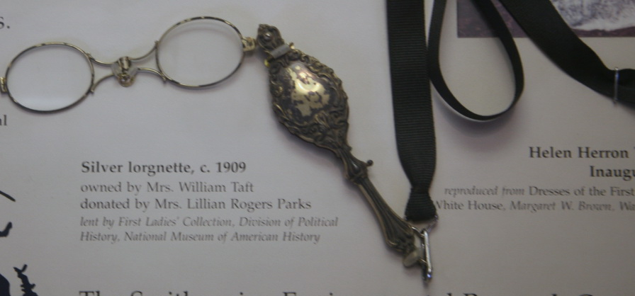 Silver Lorgnette, circa 1909, owned by Mrs. William Taft exhibited at the National Museum of American History